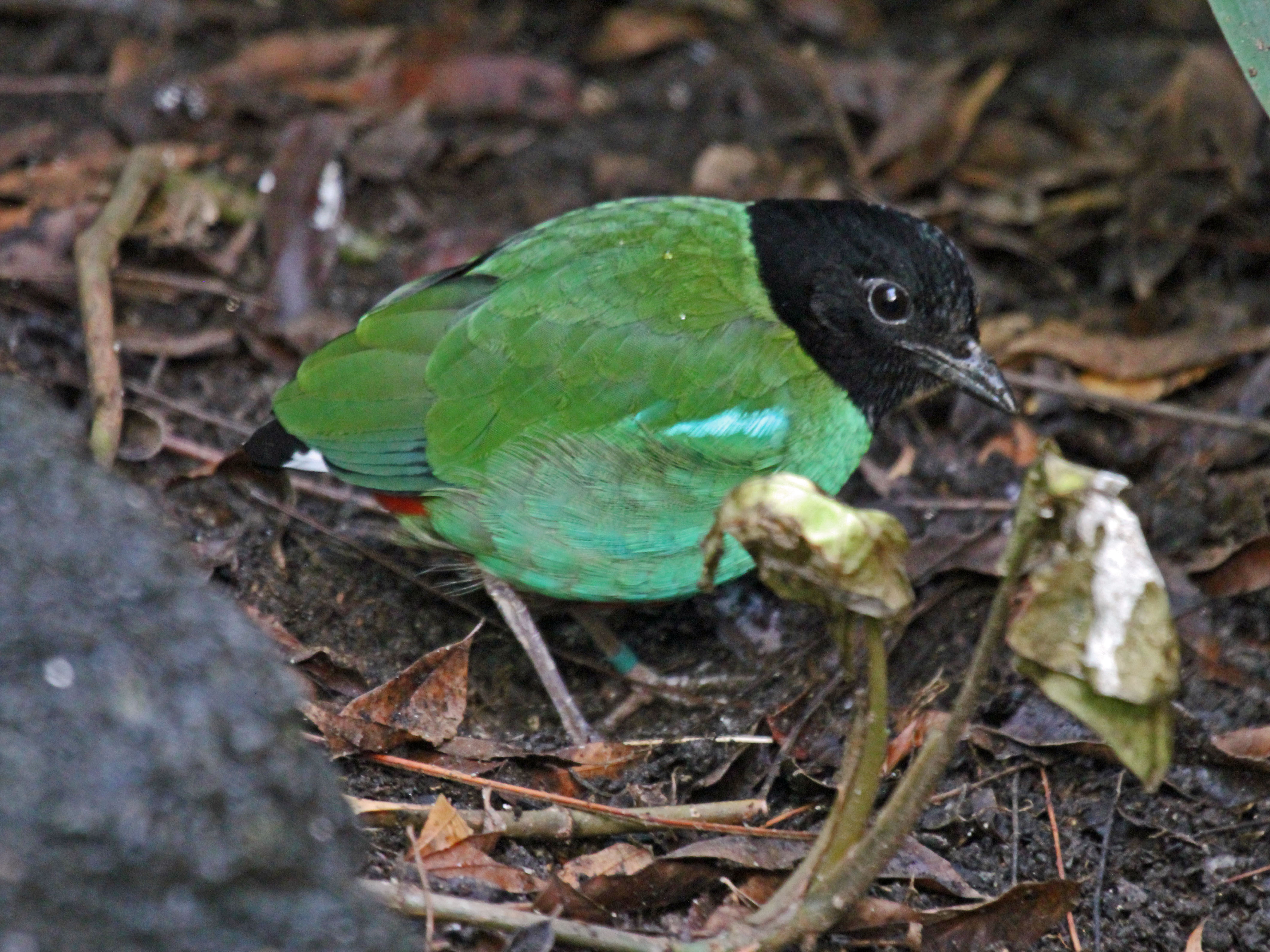 Hooded Pitta (Pitta sordida) - San Diego Zoo